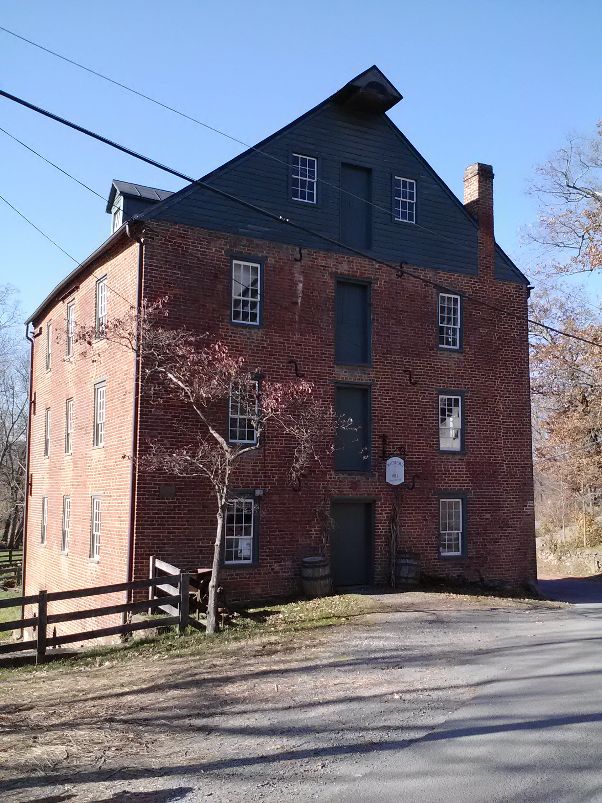 Waterford, Virginia